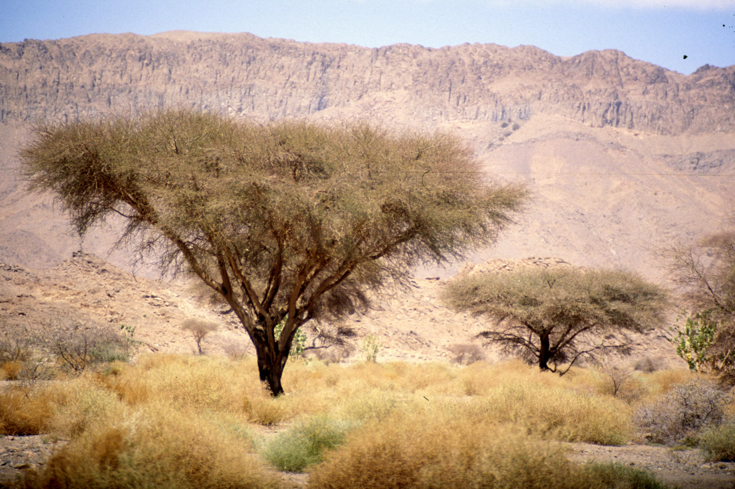 Area of Hoggar (Tamanghasset, Algeria)